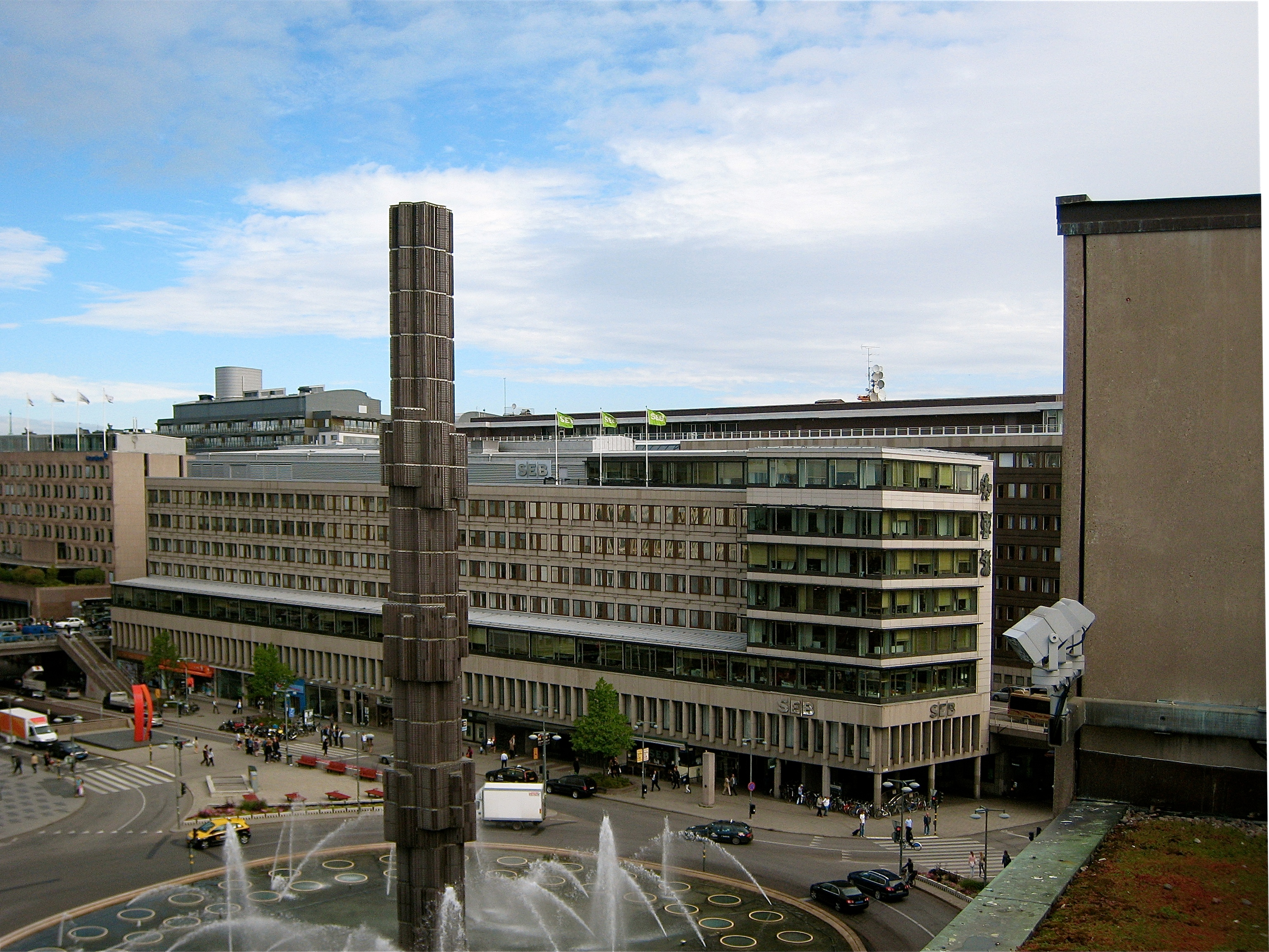 Hästskon 12